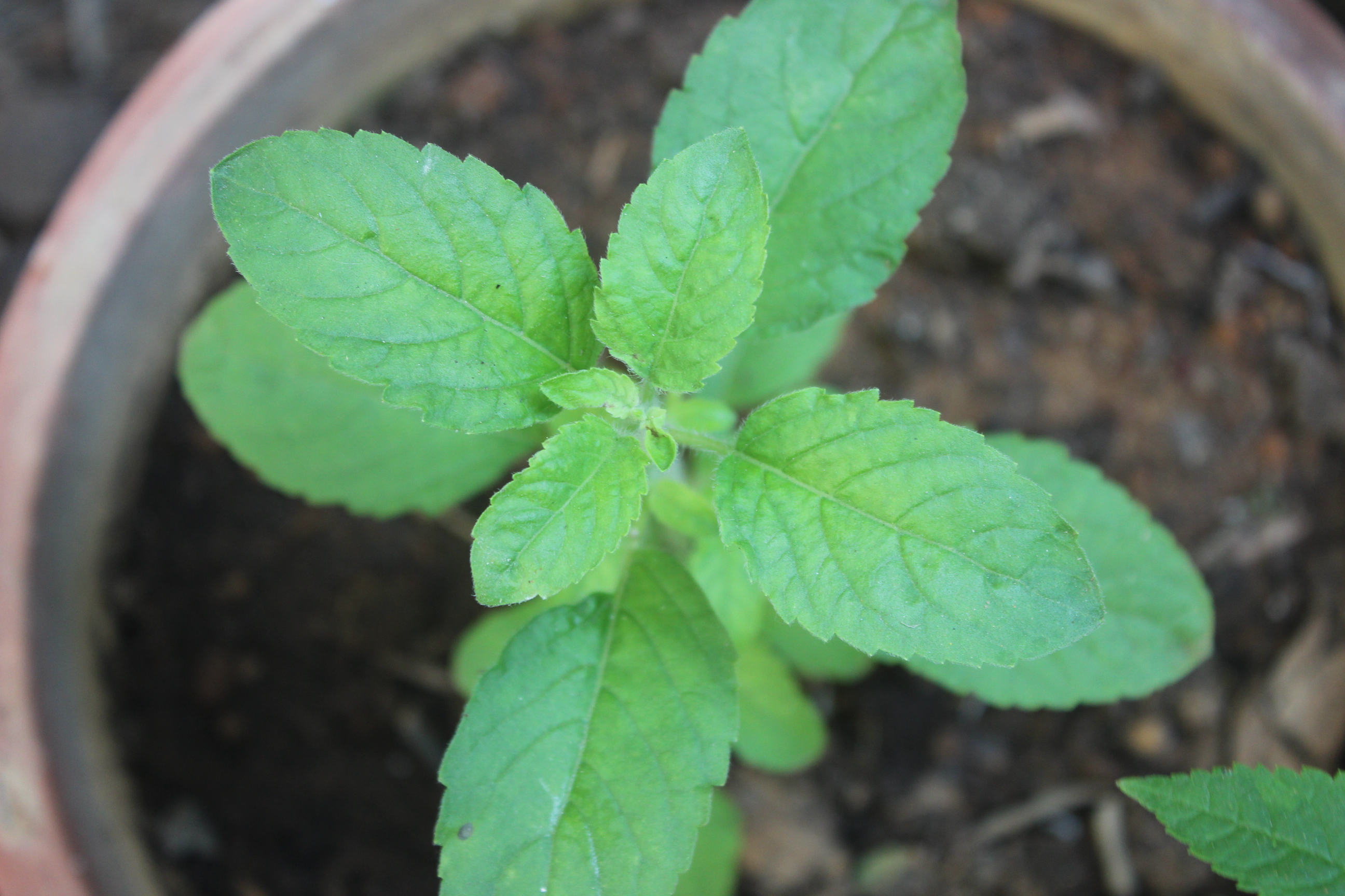 Tulasi